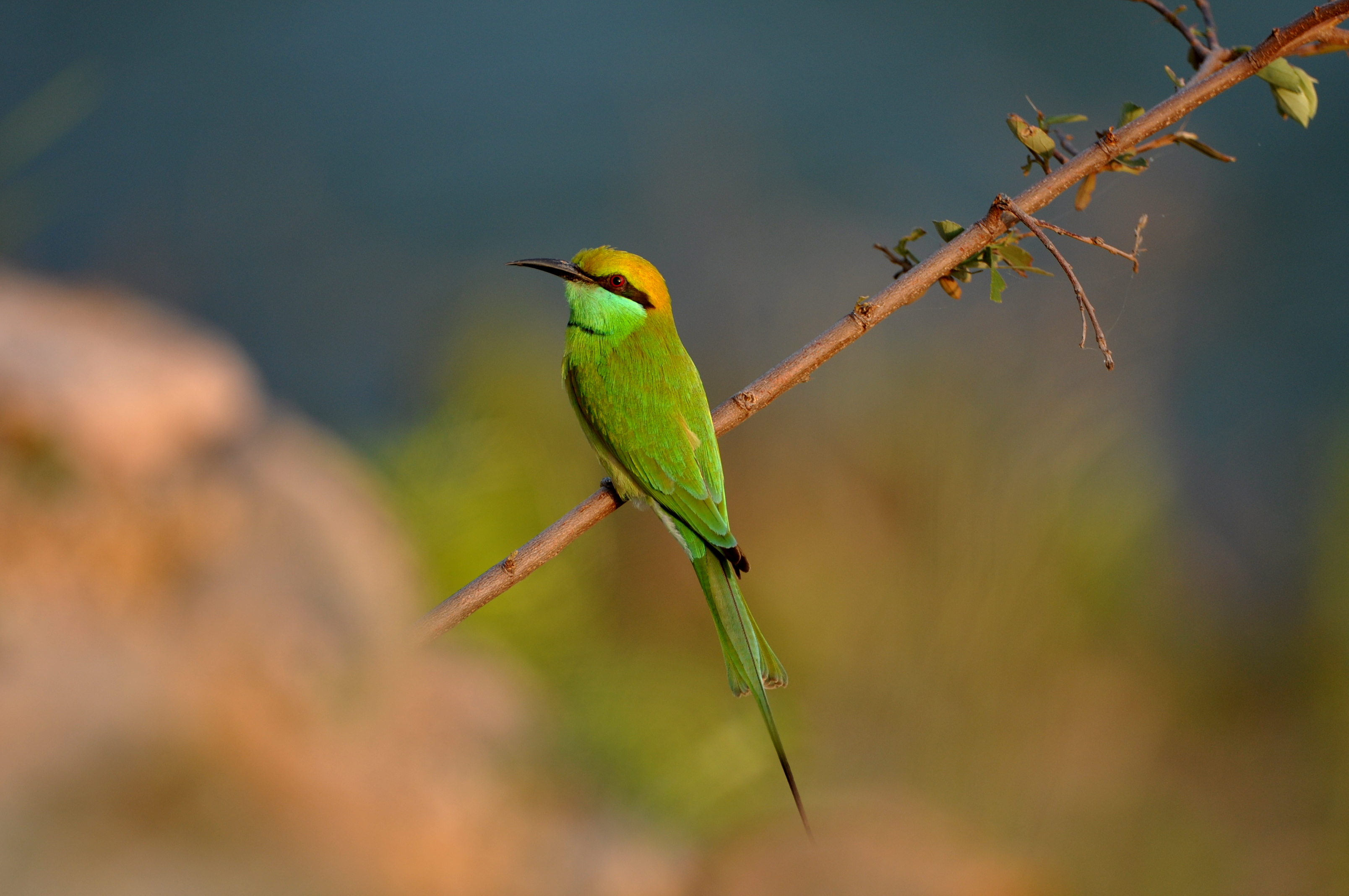 Green bee-eater in India